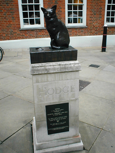 Statue of Hodge in the courtyard outside Dr. Johnson's House, 17 Gough Square, London.